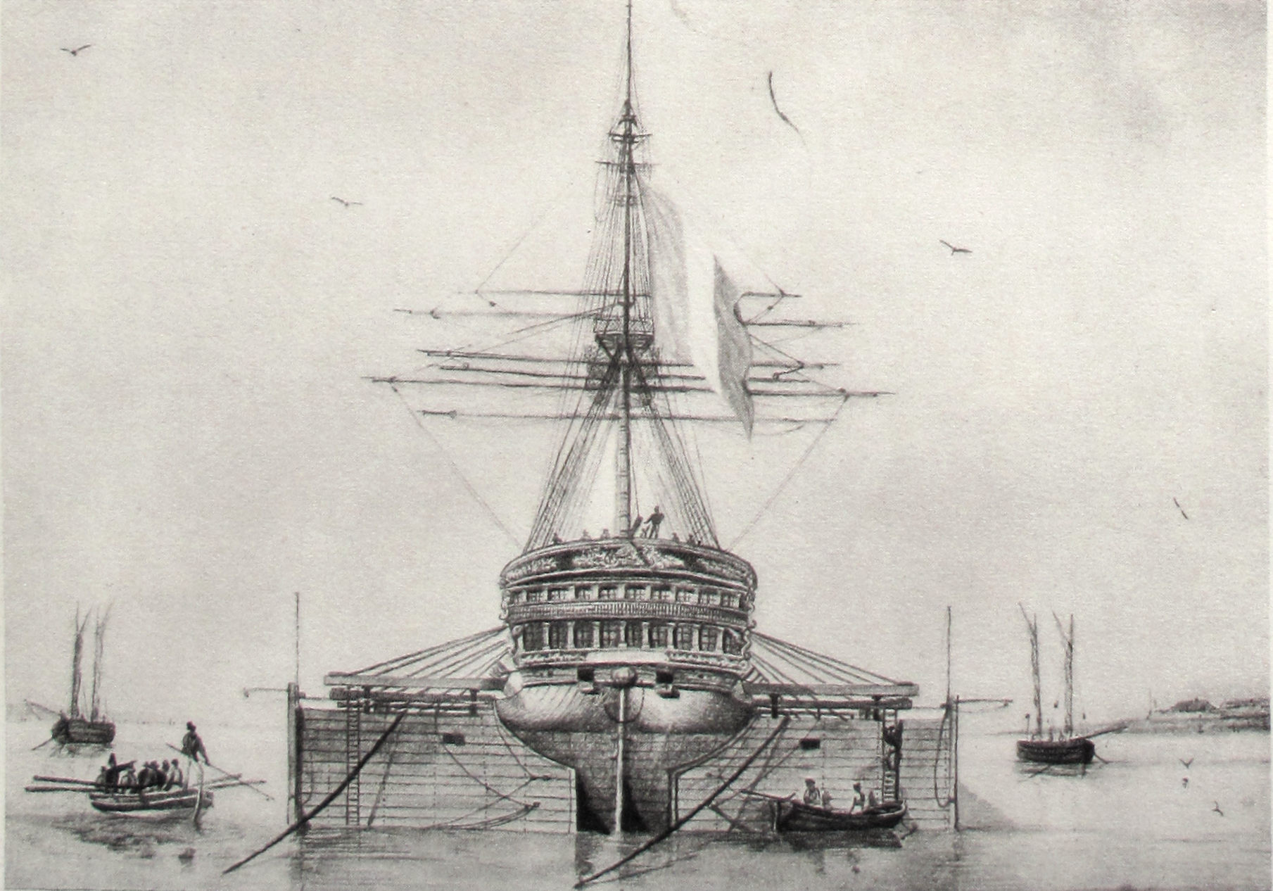 Ship of the line Mont Saint Bernard fitted with Ship Camels, external ballast to sail over shallow waters